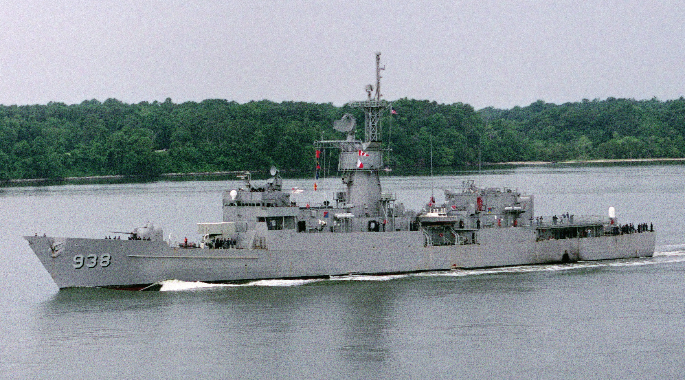 Port bow view of the Taiwanese frigate NI YANG (F 938) underway departing, at 0930 hrs, the Yorktown Naval Weapons Station. The NI YANG was recently transferred to Nationalist China and is the former Knox class frigate AYLWIN (FF 1081). at YORKTOWN, VIRGINIA (VA) UNITED STATES OF AMERICA (USA)